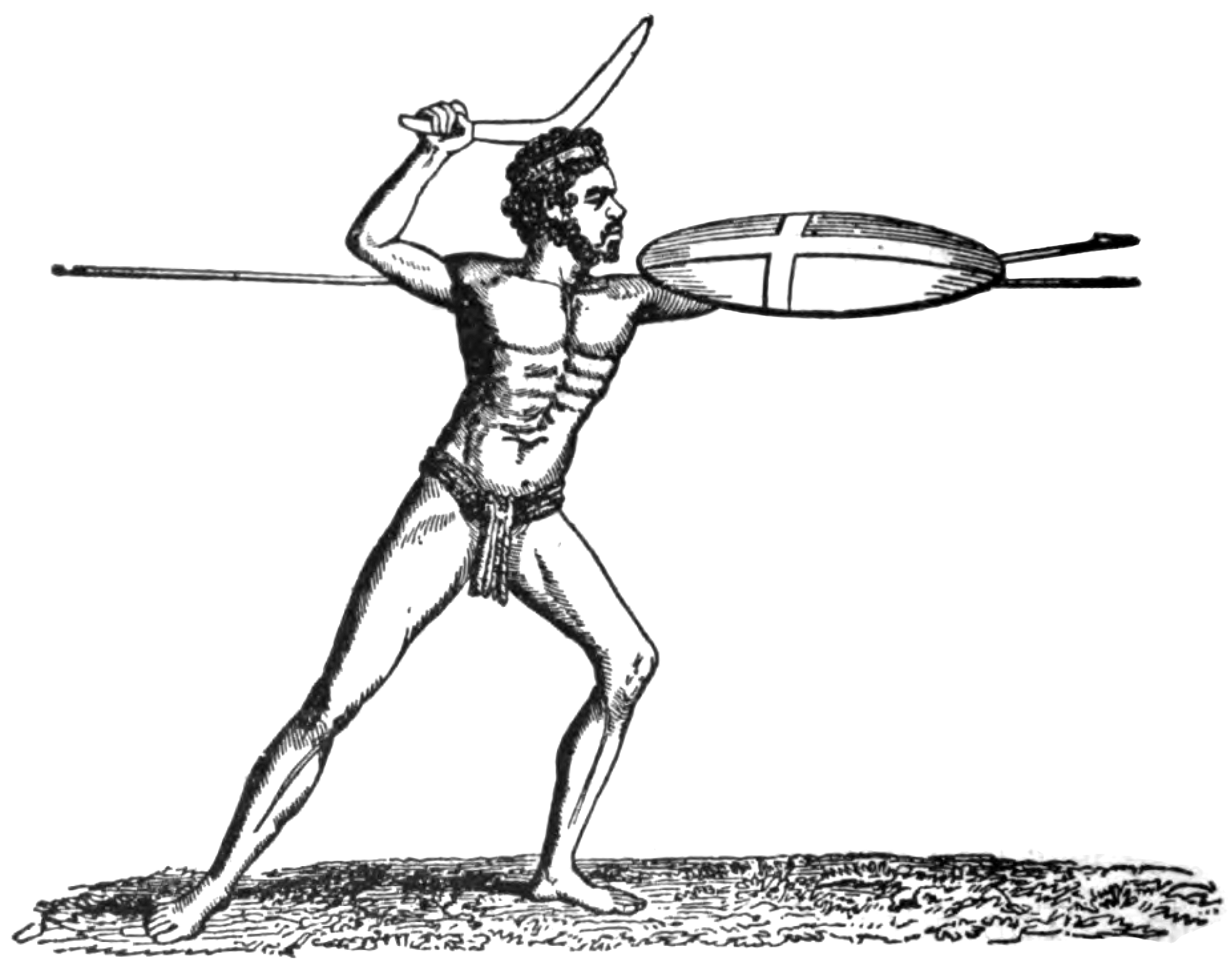 Illustration from the book "Twenty years before the mast" by Charles Erskine. Page 100.